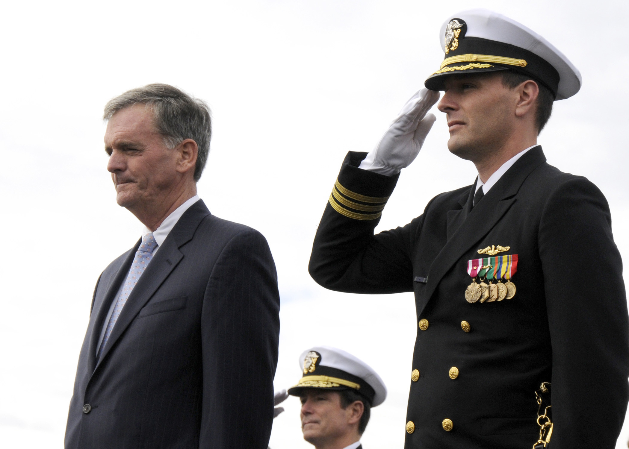 KITTERY, Maine (Oct. 25, 2008) Cmdr. Mike Stevens, commanding officer of the Virginia-class attack submarine USS New Hampshire (SSN 778), right, and Vice Adm. John Donnally, Commander Submarine Force, center, salute as honors are rendered to U.S. Senator Judd Gregg (R-NH) at the commissioning ceremony for New Hampshire at Portsmouth Naval Shipyard. More than 3,500 people were in attendance at the ceremony, held at the Navy's first shipyard. New Hampshire is the fifth Virginia-class submarine, the first major U.S. Navy combatant vessel class designed with the post-Cold War security environment in mind. (U.S. Navy photo by Jeremy Lambert/Released)